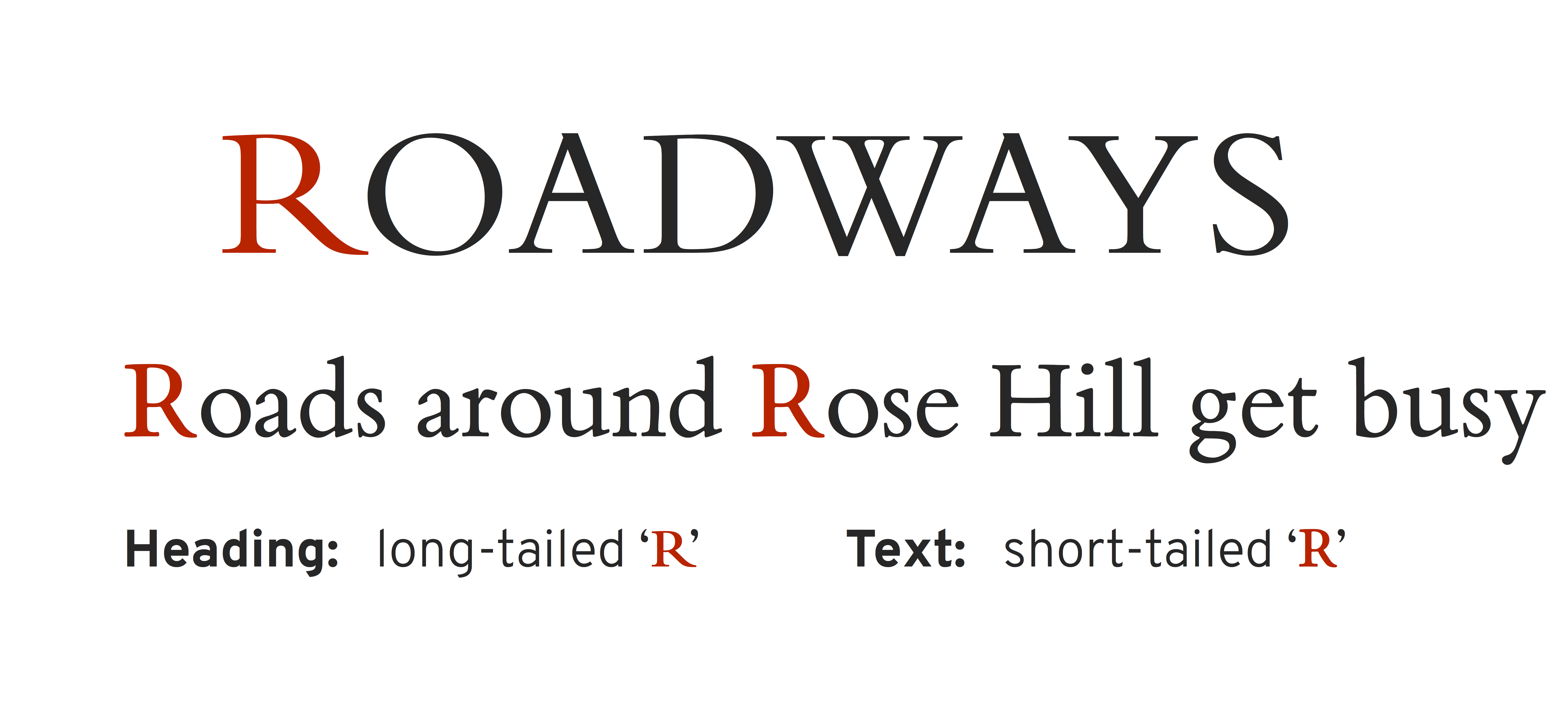 The Monotype font Bembo includes (at least in metal type) two "R"s - one with a beautiful wide leg matching its inspiration, one with a more tucked-in leg suitable for body text. This illustrates the difference. Not all digitisations include both. For this image, the quite delicate "Bergamo" digitisation of Bembo from Fontsite is used for the heading, and the open-source ET Book for the body text. Monotype's Bembo Book digitisation is one of the few digital releases to include both styles.